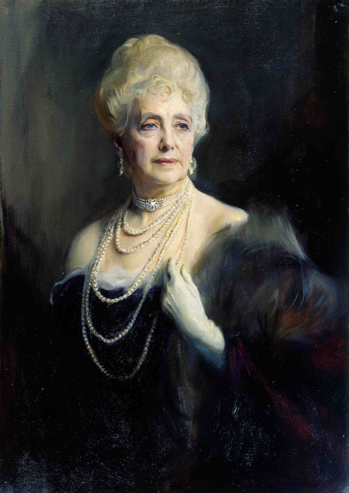 Portrait of Mabell Ogilvy, Dowager Countess of Airlie, née Lady Mabell Frances Elizabeth Gore